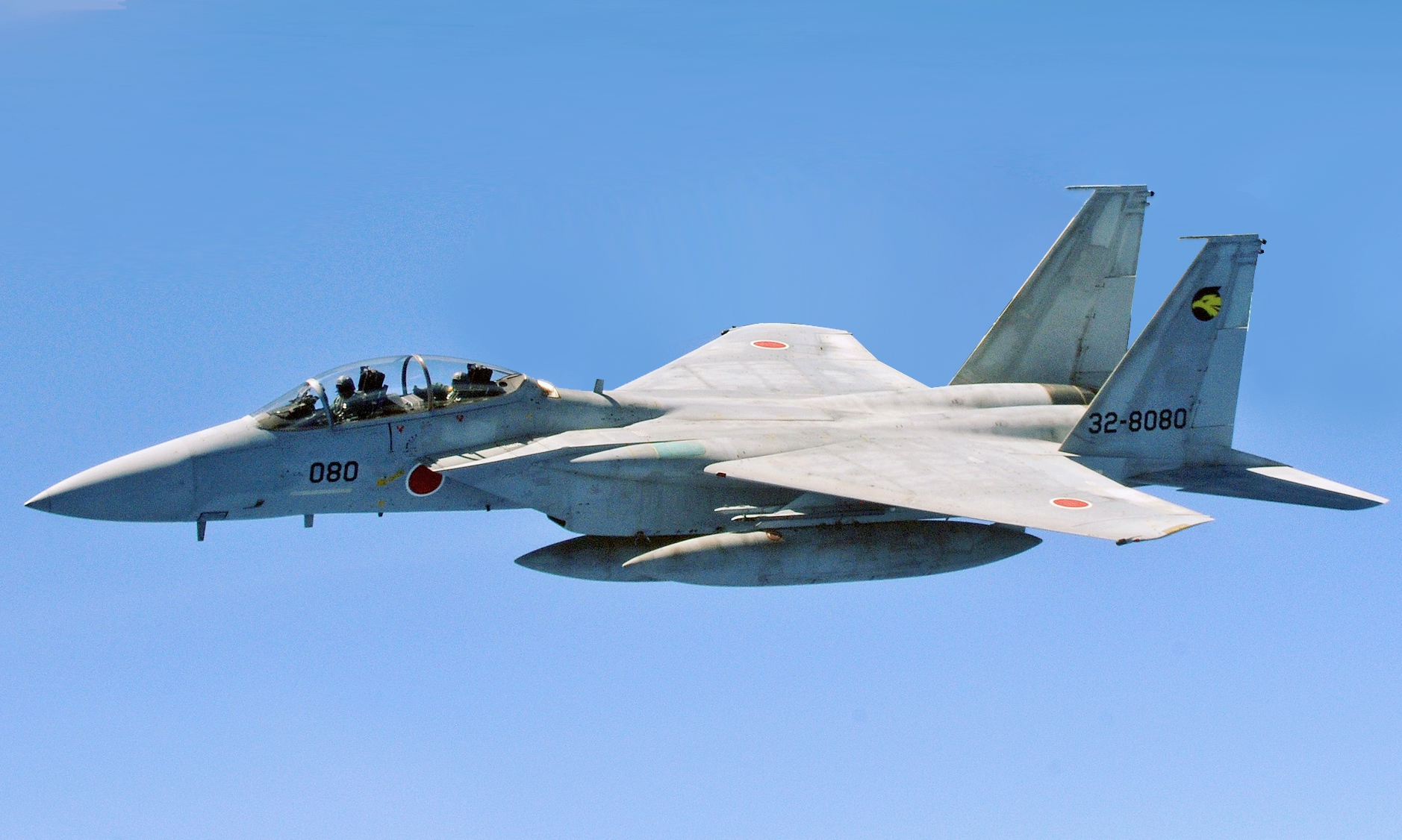 A Japanese Air Self Defense Forces F-15's fly alongside a U.S. Air Force KC-135 from the 909th Air Refueling Squadron, Kadena Air Base, during air refueling training July 30. The training is in preparation for JASDF participation in Red Flag Alaska this year. (U.S. Air Force photo/Tech. Sgt. Angelique Perez)